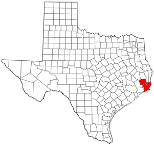 Map of the Beaumont-Port Arthur Metropolitan Area; created with the GIMP. Made by User:Acntx.